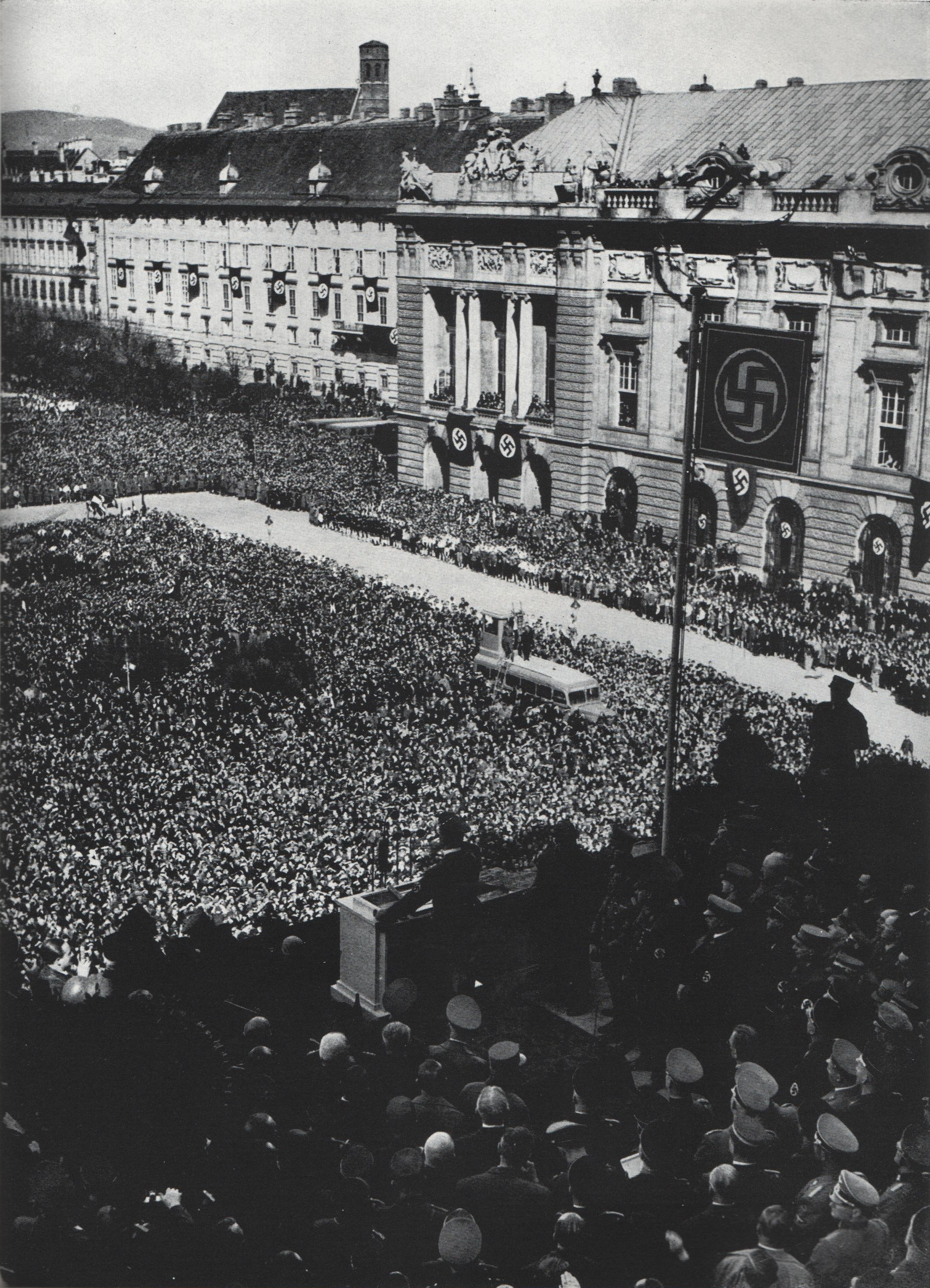 Hundreds of thousands on Heldenplatz in Vienna on March 15, 1938